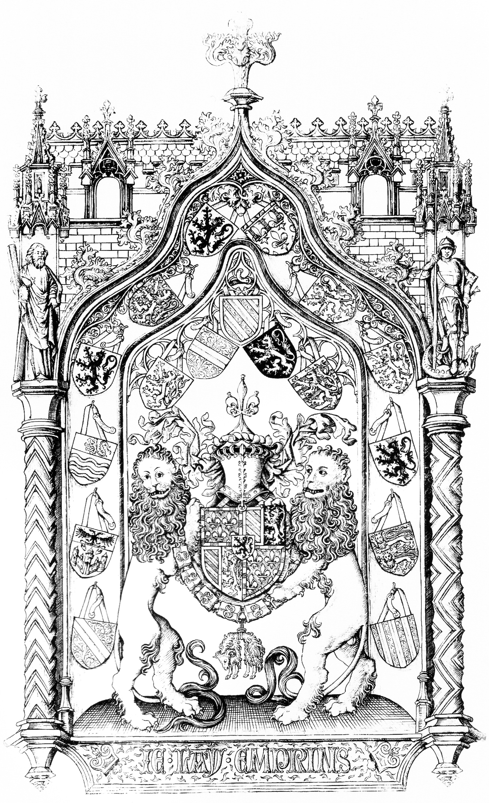 Engraving showing the personal coat of arms of Charles the bold, duke of Burgundy (center) surrounded by the coat of arms of the titles he held